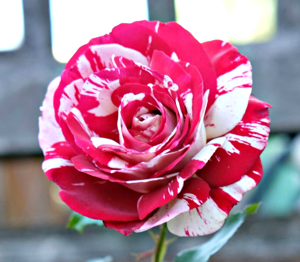 Rock & Roll Grandiflora Rose. Nathan and Mia's garden, Portland, Oregon, June 2019